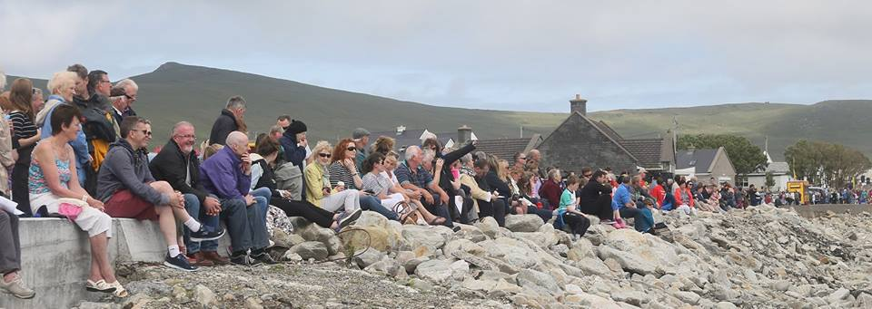 Crowds enjoying the Currach Races at the Inaugural Dooagh Day 2015 on Sunday 12th July